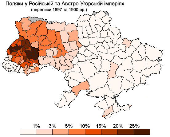 Share of ethnic poles according to 1897 and 1900 censuses